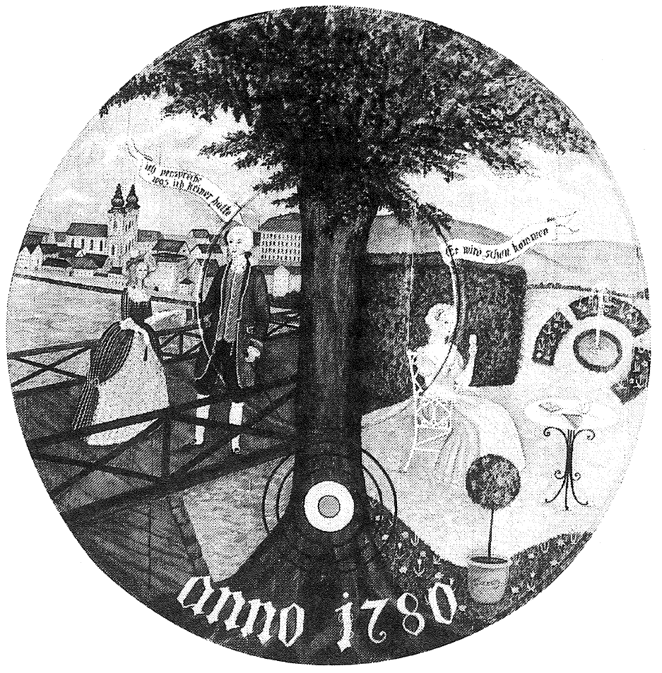 A Bölzlscheibe (target for recreational dart-shooting) depicting Emanuel Schikaneder (1751–1812) as a womanizer.